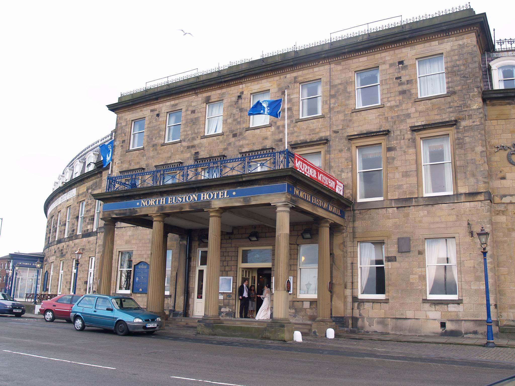 Fleetwood-Mar 2008-The North Euston Hotel (1841)